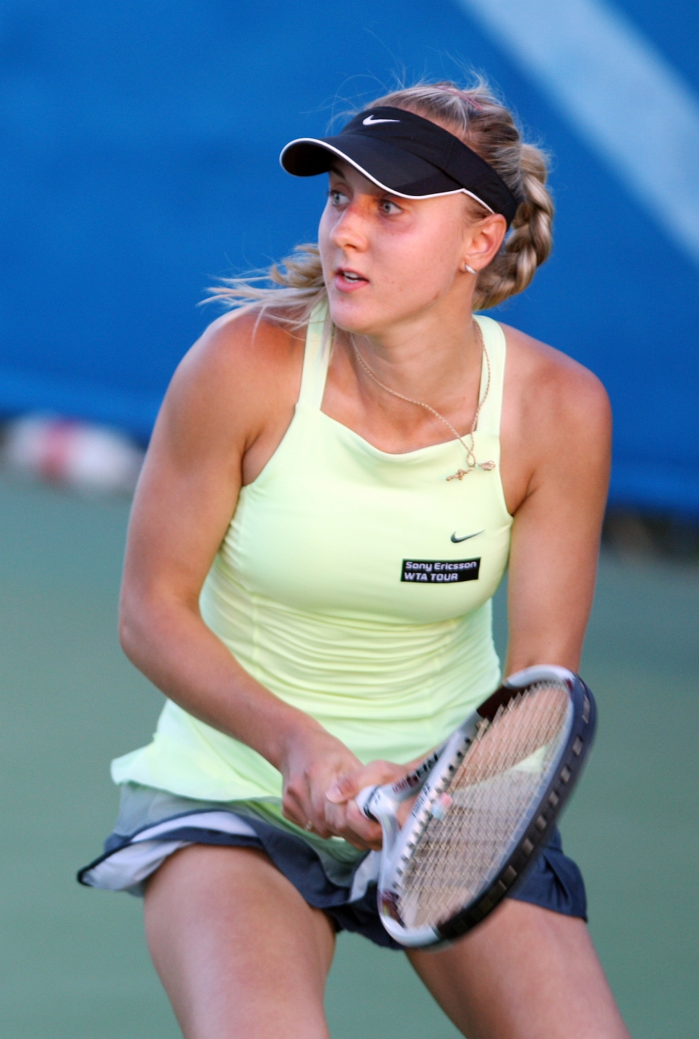 Viktoriya Kutuzova - Portoroz 2009